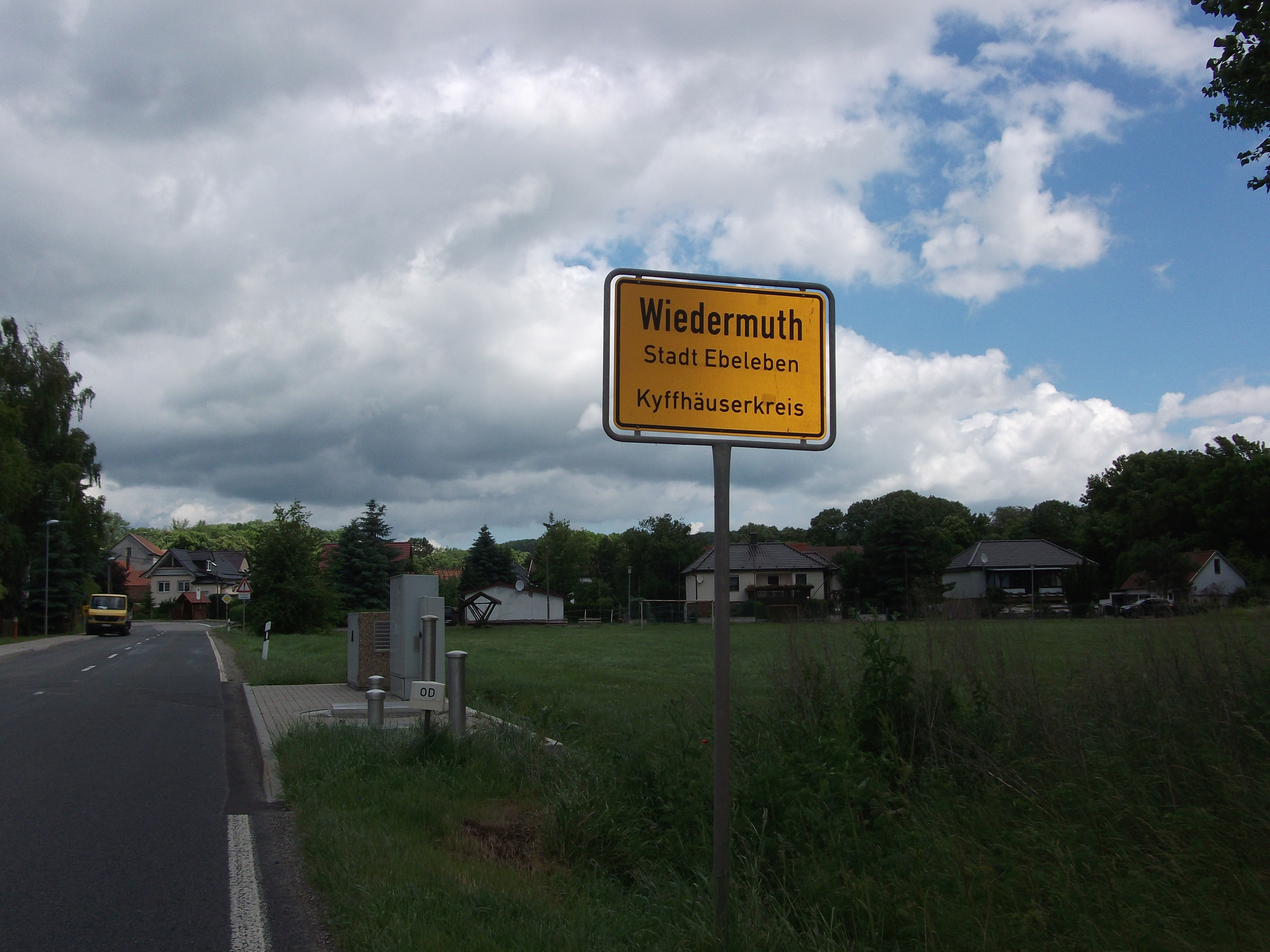 Wiedermuth entrance from the East (2013-06-21)